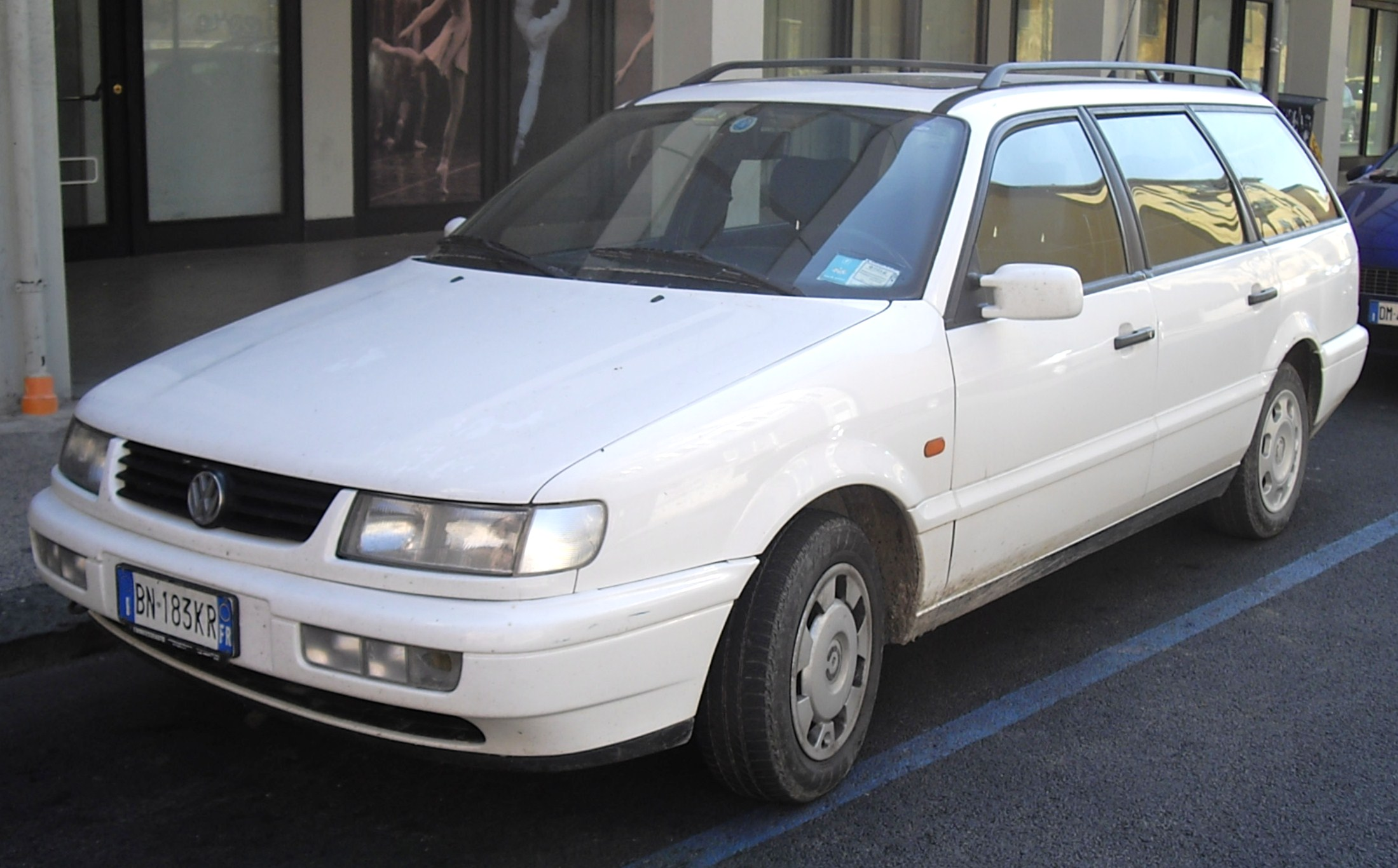 Volkswagen Passat Variant B4